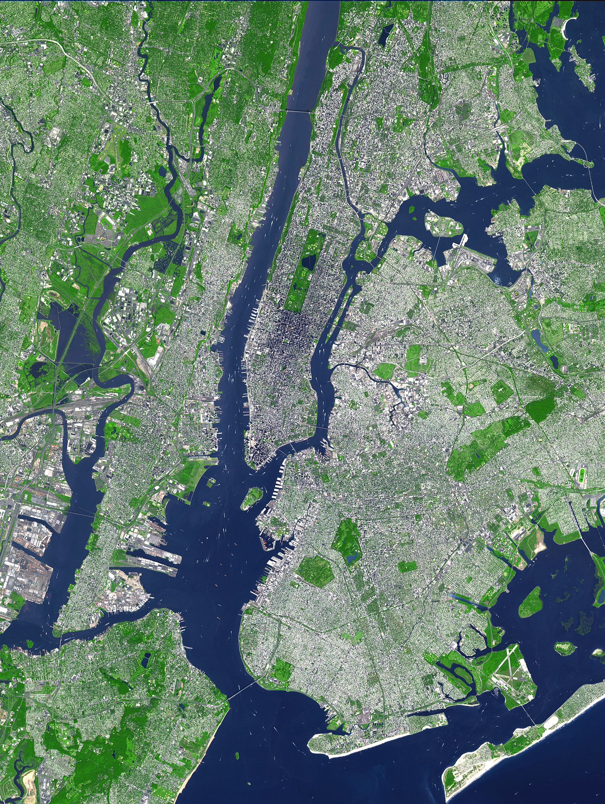 This false-color satellite image shows Greater New York City. The Island of Manhattan juts southward from top center, bordered by the Hudson River to the west and the East River to the east (north is straight up in this scene.) In the middle of Manhattan, Central Park appears as a long green rectangle running roughly north-south with a large lake in the middle. The large land mass east of Manhattan is the western end of Long Island, which is comprised of the boroughs of Queens and Brooklyn and two counties, Nassau and Suffolk (not shown) which are not part of New York City. Parts of Staten Island (bottom left corner) and Breezy Point-Rockaway Beach (lower right)are also visible. This false-color image was acquired on Sept. 8, 2002, by the Advanced Spaceborne Thermal Emission and Reflection Radiometer (ASTER) aboard NASA's Terra satellite. The scene spans an area that is 27 km wide by 37 km tall. Vegetated land surface is green, paved urban areas are a whitish blue, and water is dark blue.